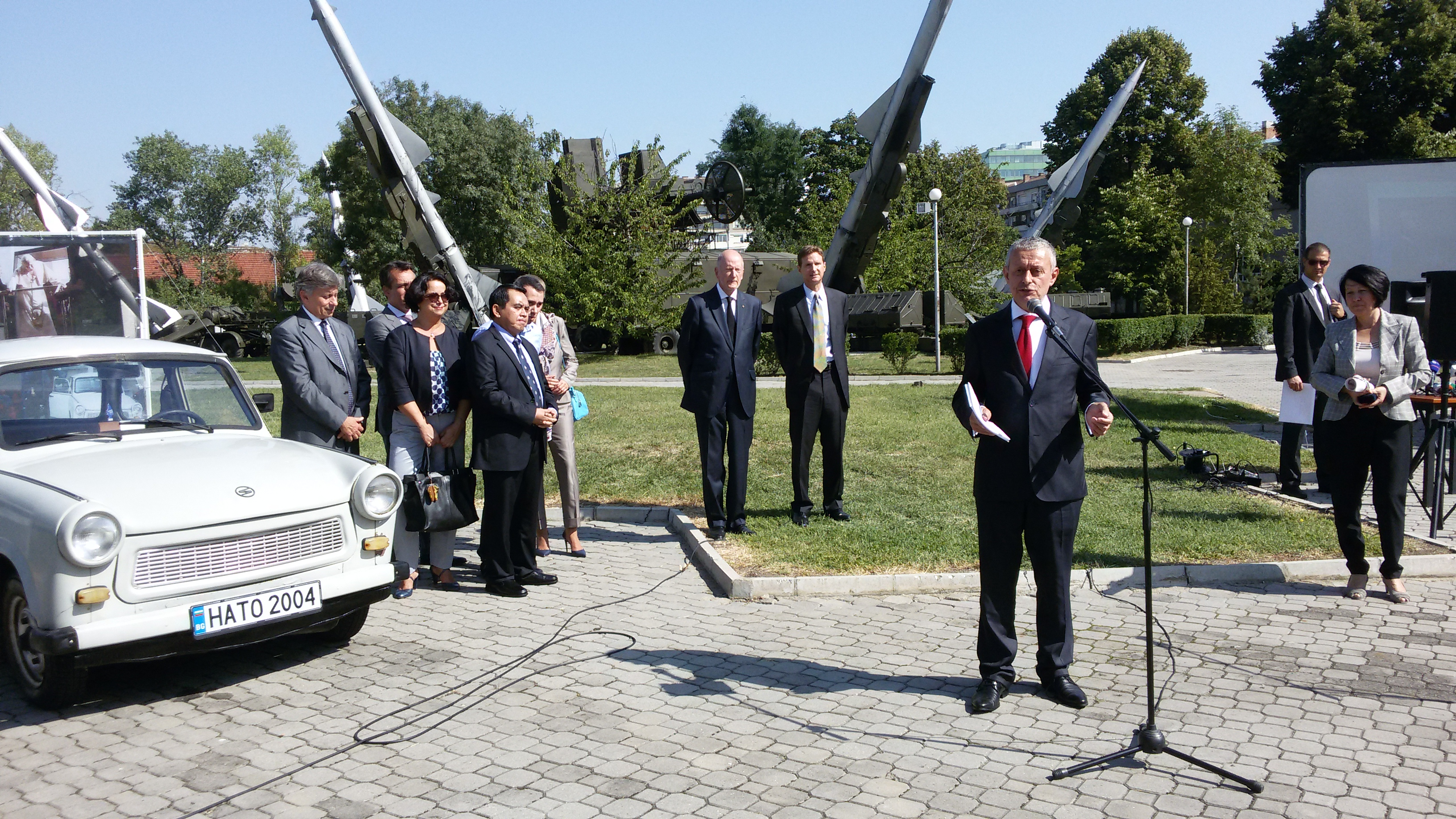 Соломон Паси дари трабанта си на Военния музей